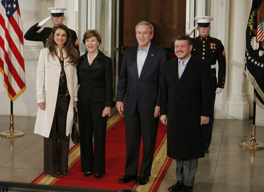 US President George W. Bush and Mrs. Laura Bush welcome Jordan's King Abdullah II and Queen Rania upon their arrival to the White House for a social dinner Tuesday evening, March 6, 2007.